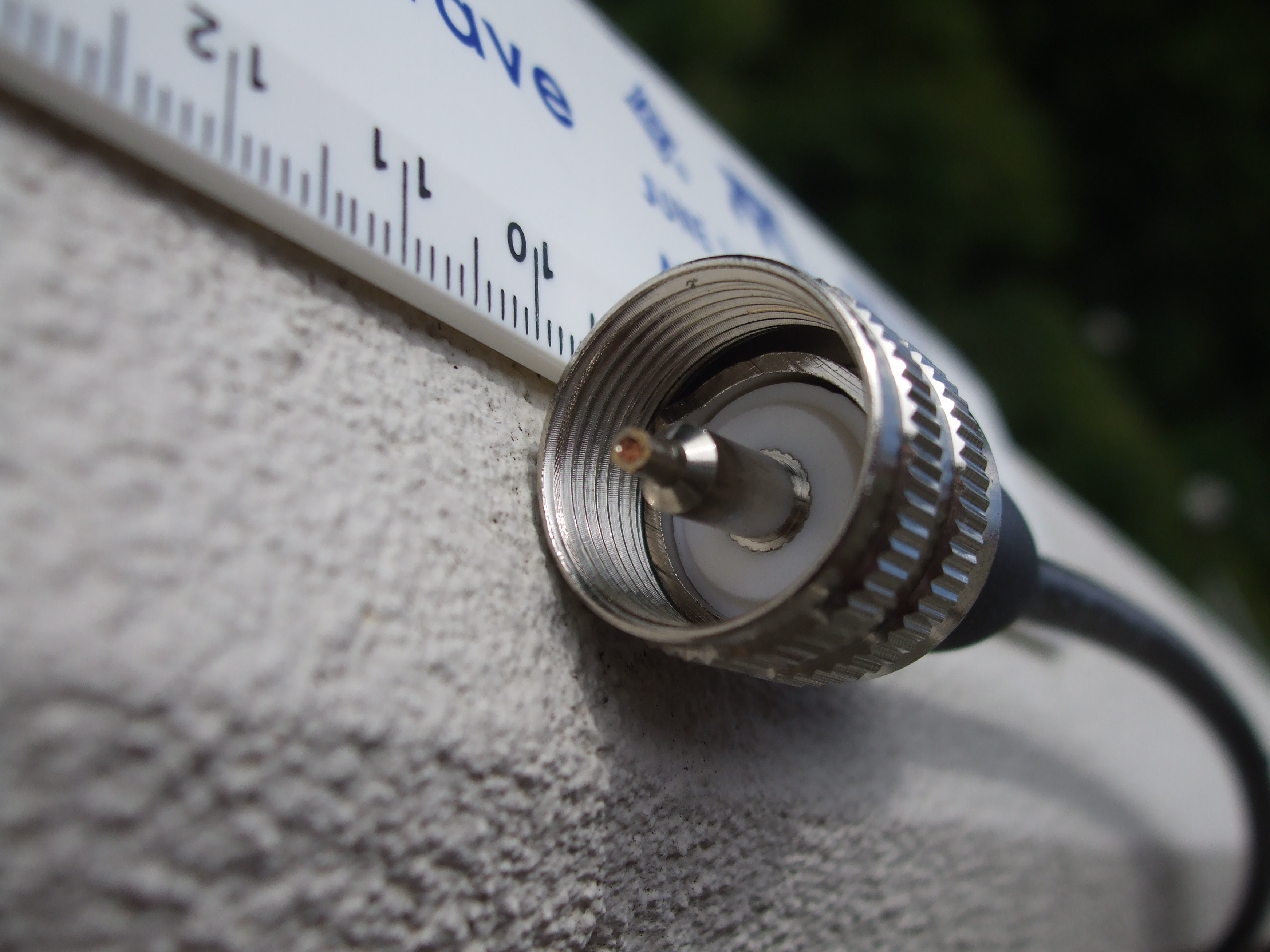 UHF plug and RG 58 cable